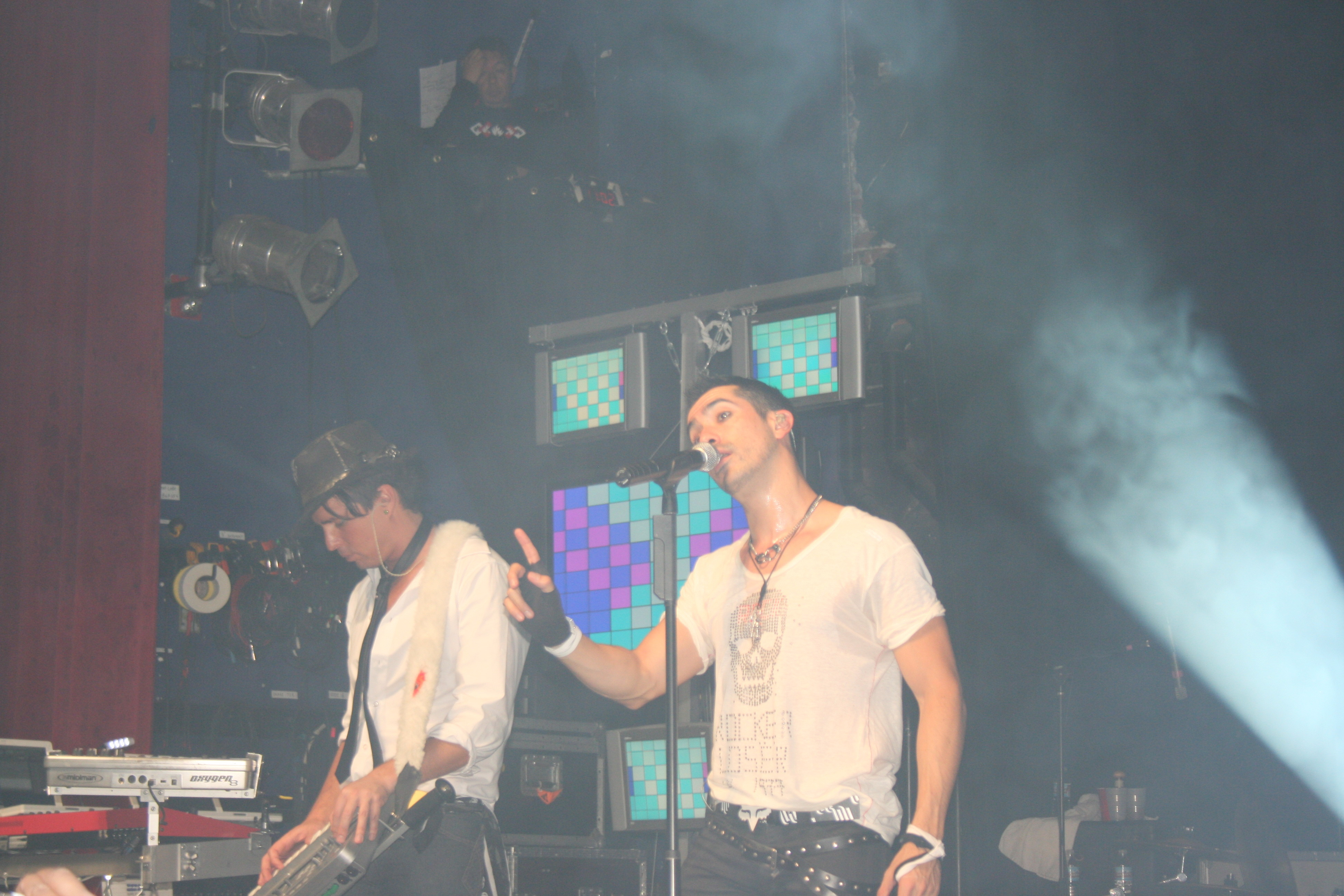 Mœnia at Gothic Theatre 04-21-07